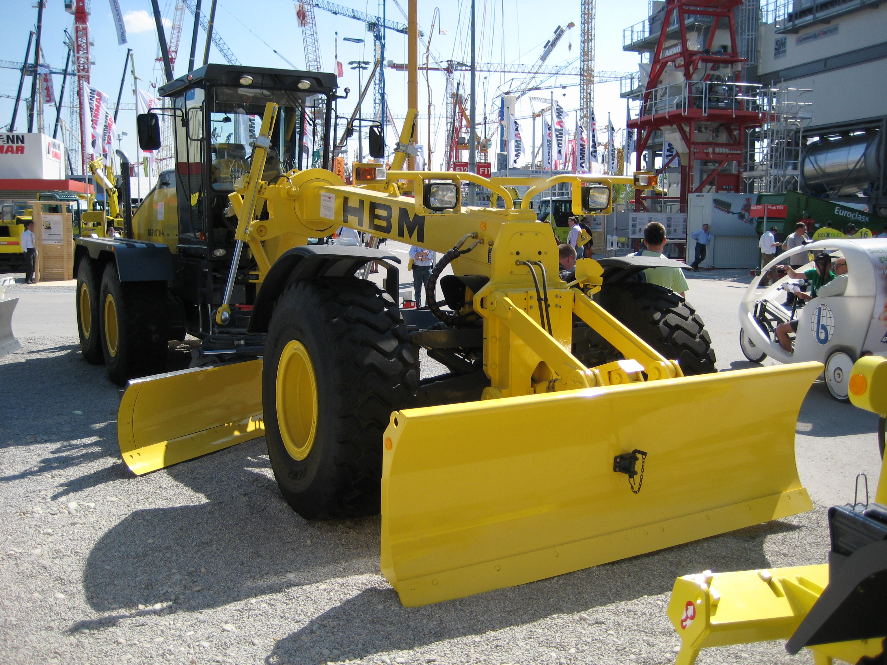 BAUMA 2007, Grader, HBM-Nobas